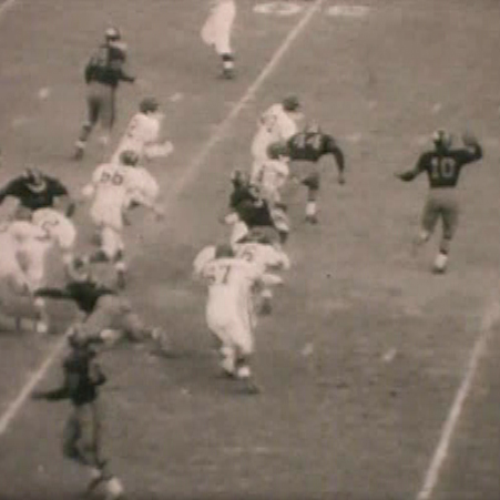 Quarterback kurt schmoke on thanksgiving day 1965